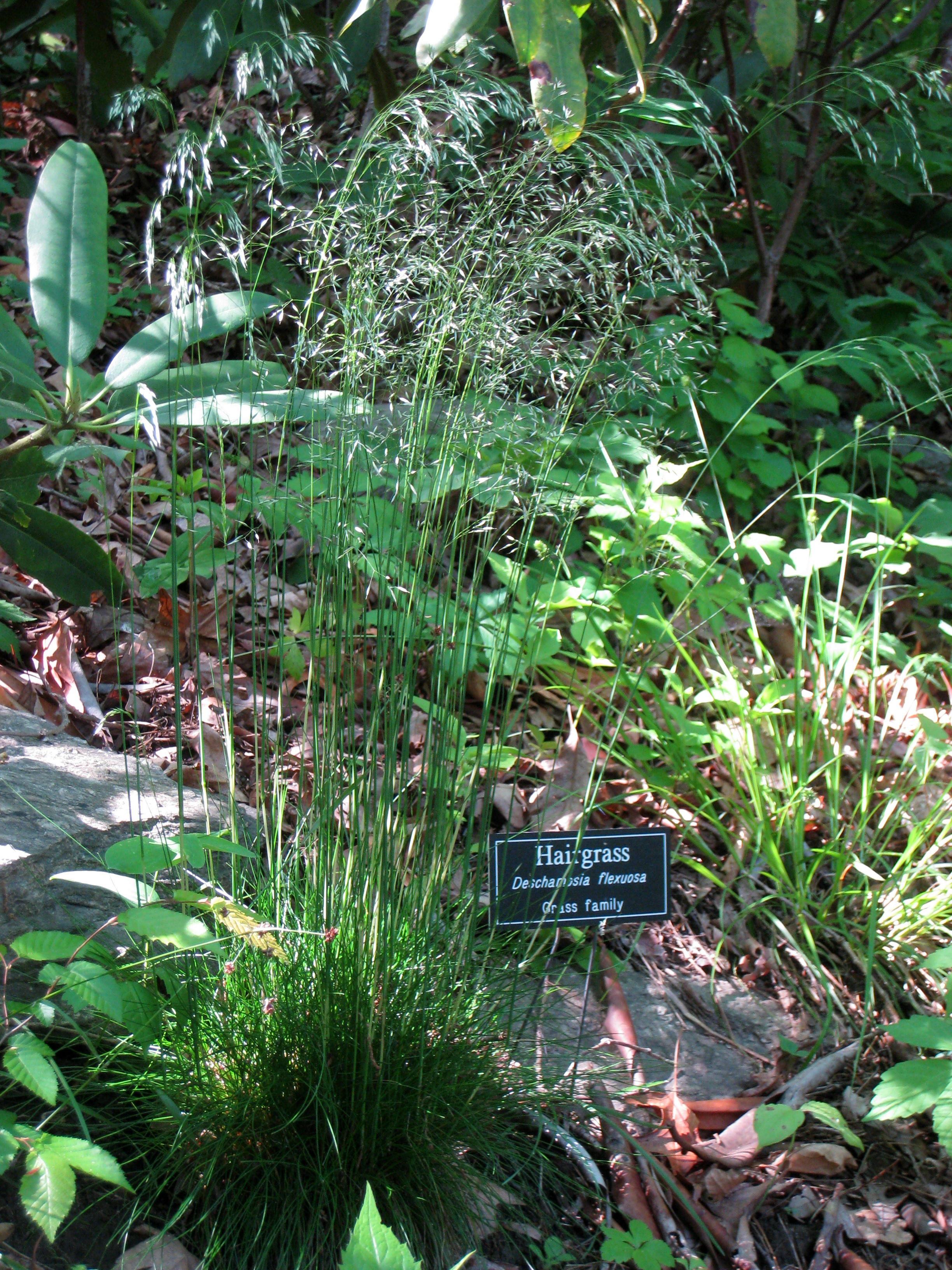 Botanical Gardens at Asheville, Asheville, North Carolina, USA. Hairgrass (Deschampsia flexuosa).